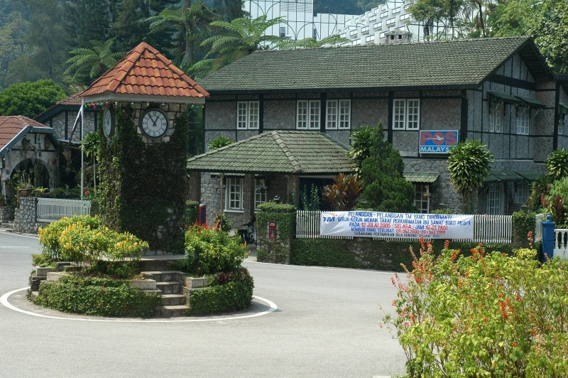 Fraser's Hill, Malaysia.